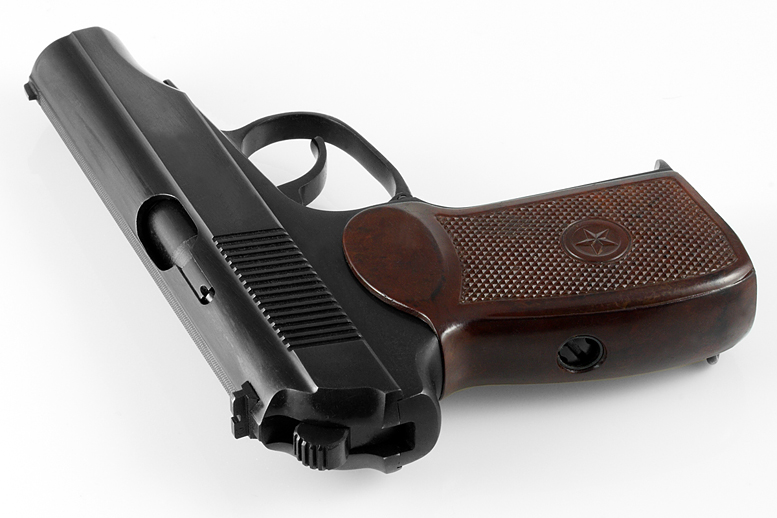 Makarov PM